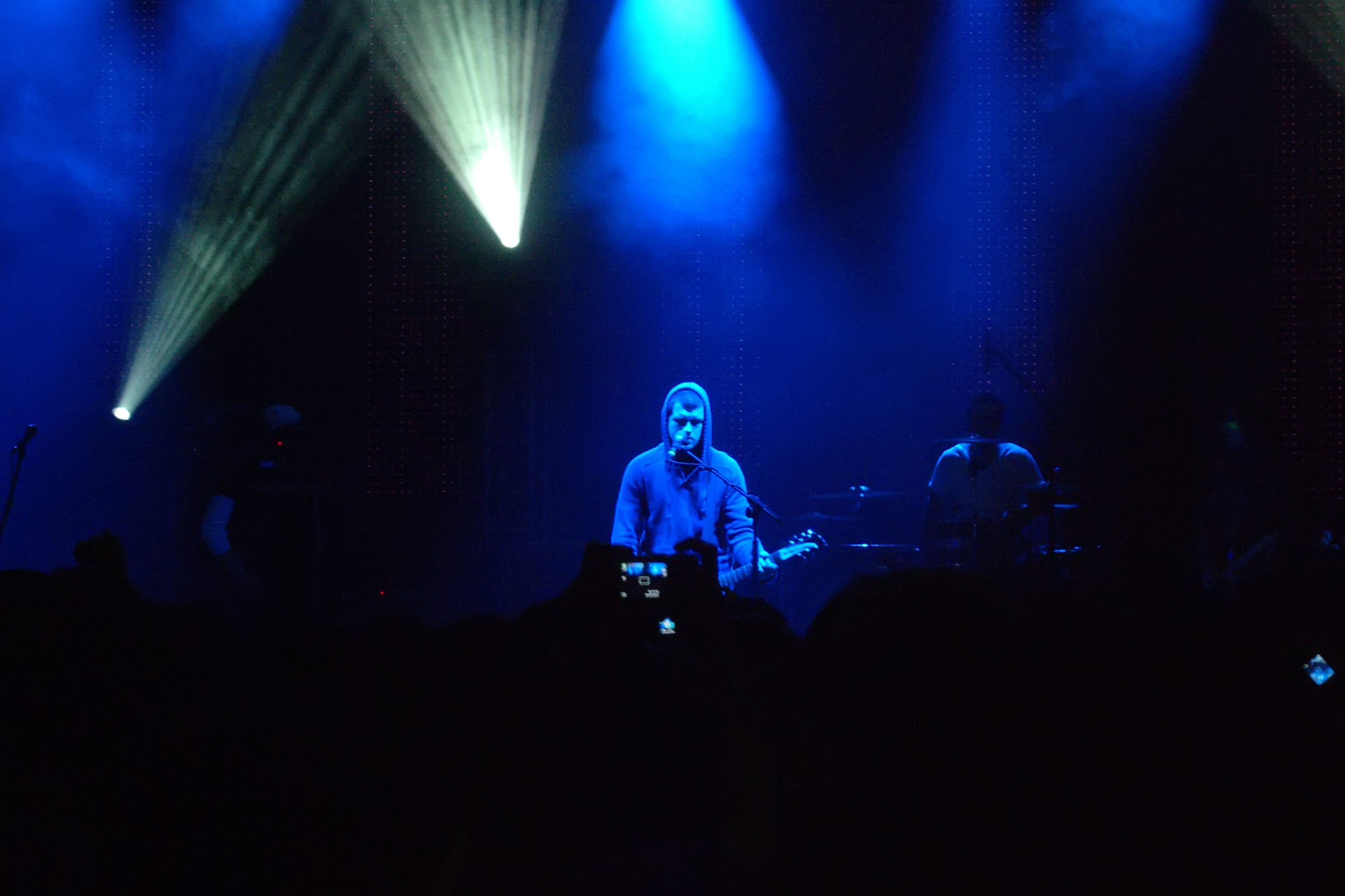 An audience member takes a photograph of Jess Lacey of Brand New, amid a crowd of animated fans at Southampton Guildhall during a tour of the UK in 2007.